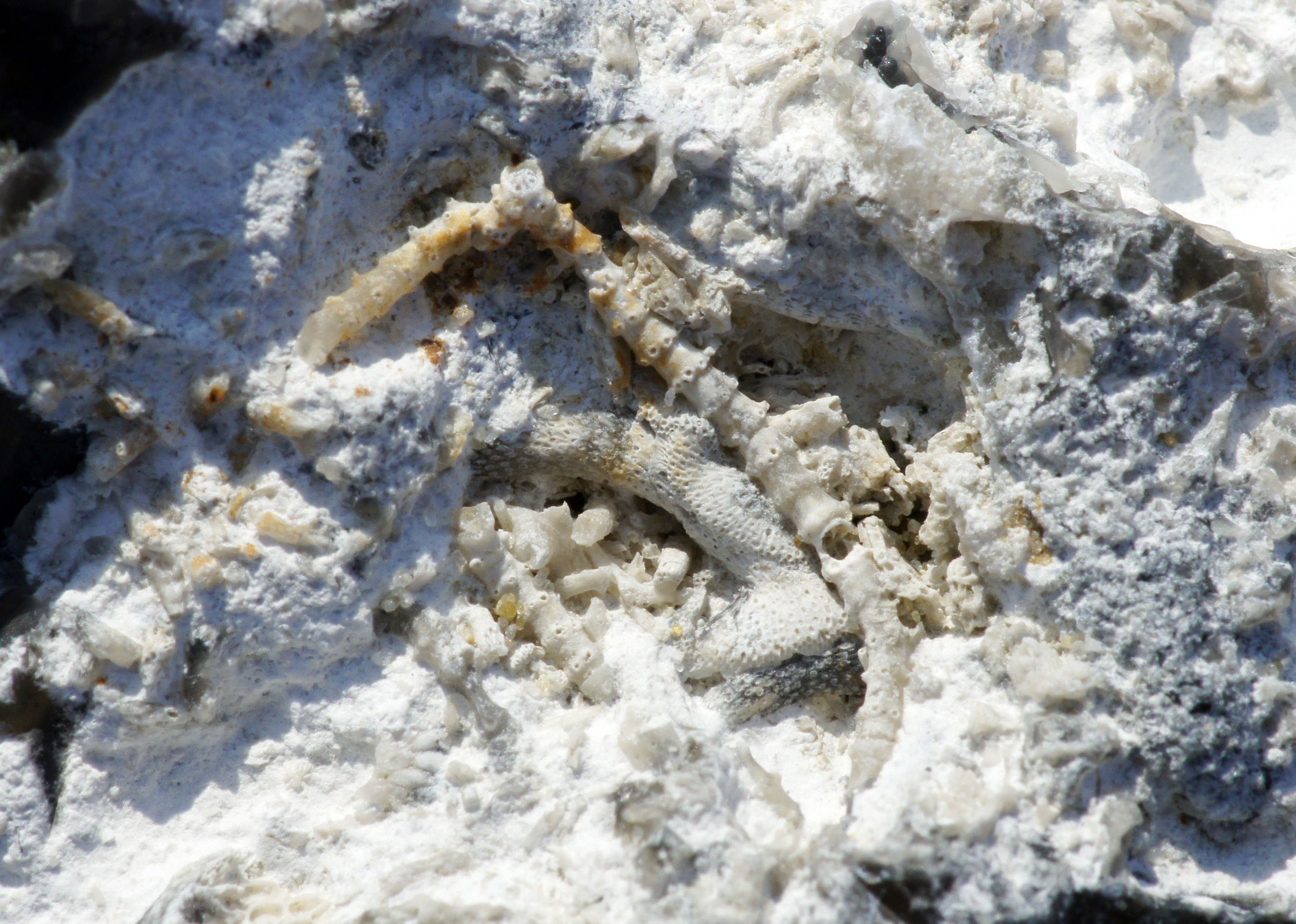 fossil moss animals (Bryozoa) Krimstrand 2014